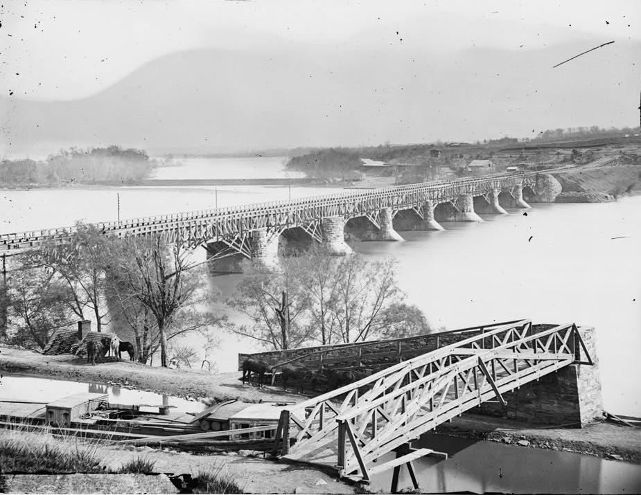 The Potomac Aqueduct Bridge, Washington, D.C., with Virginia in background and Georgetown and the Cheasapeake & Ohio Canal in the foreground. At this time, the bridge carried only a canal.